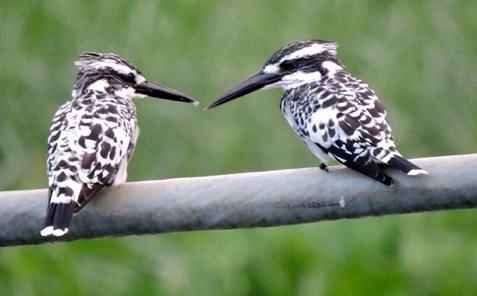 Pied kingfi,Indiasher, Kanjhli wetland, Punjab